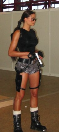 Jill De Jong at S2E 2003 Spain